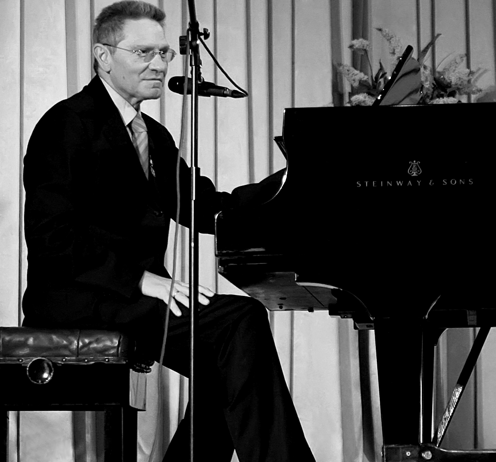 russian composer David Toukhmanov